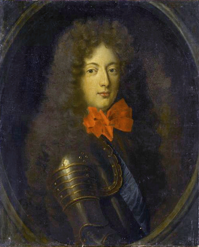 Philippe of Lorraine, called the Chevalier de Lorraine (1643-1702). Member of the House of Guise, cadet of the Ducal house of Lorraine. He is renowned as the lover of Philippe de France, Monsieur, brother of Louis XIV.